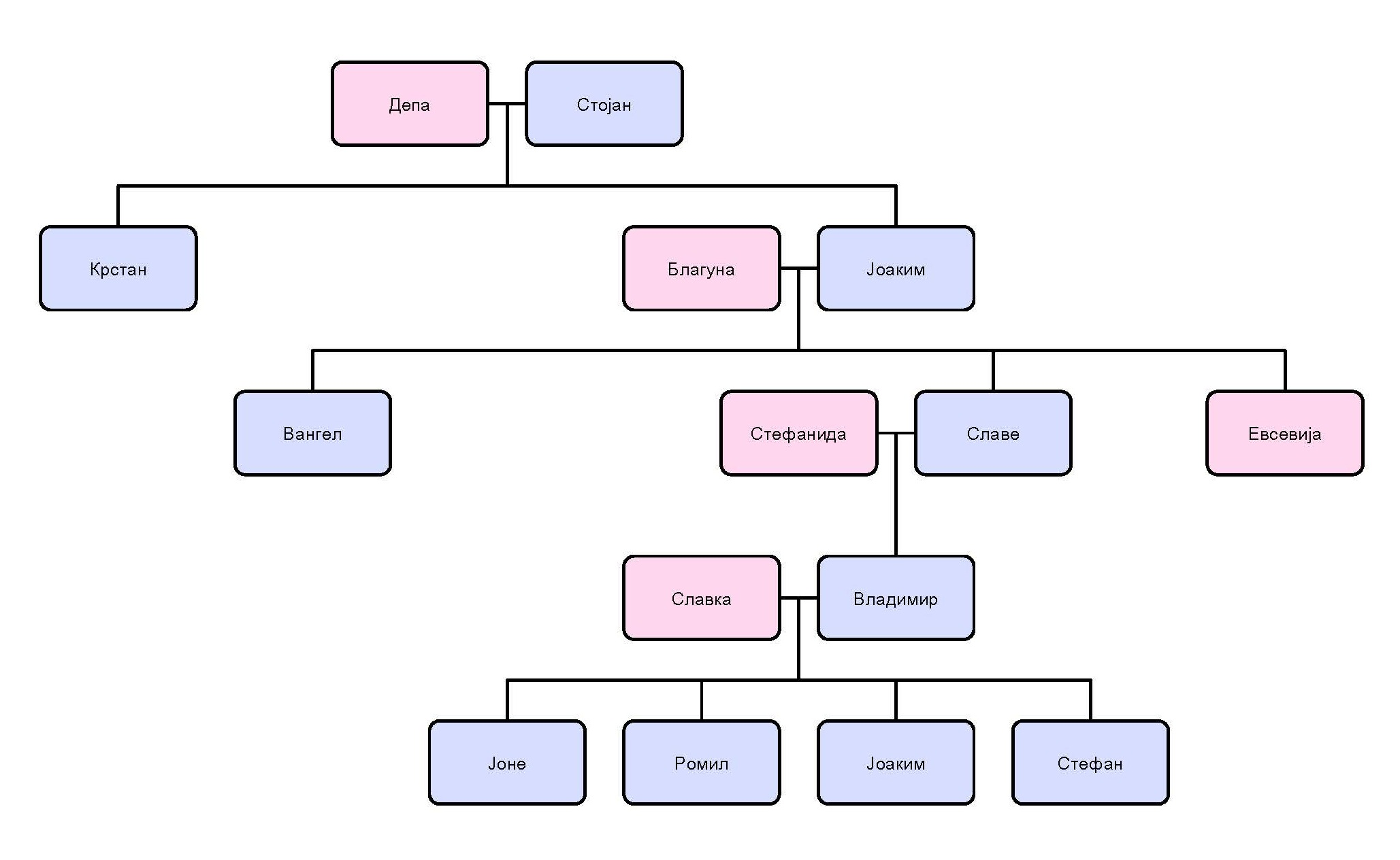 Фамилијарно дрво на Архимандрит Калистрат Зографски